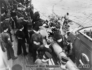 Wounded sailors from the damaged destroyer HMS EXPRESS are transferred from MTB 30 to HMS KELVIN.